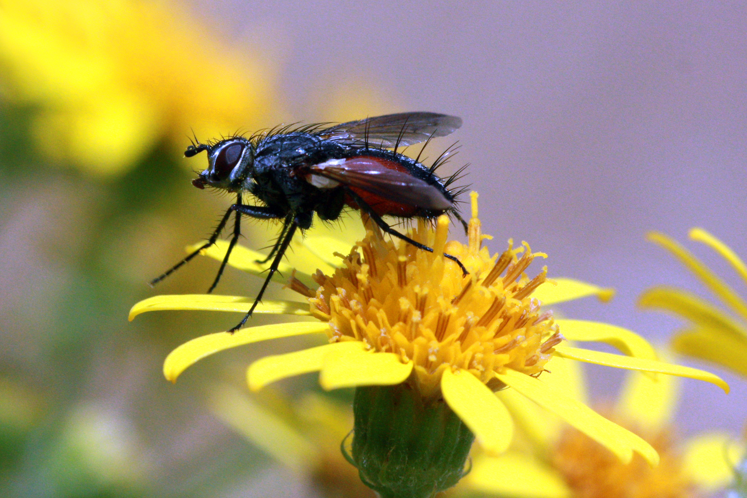 Tachinid fly (Eriothrix rufomaculata)